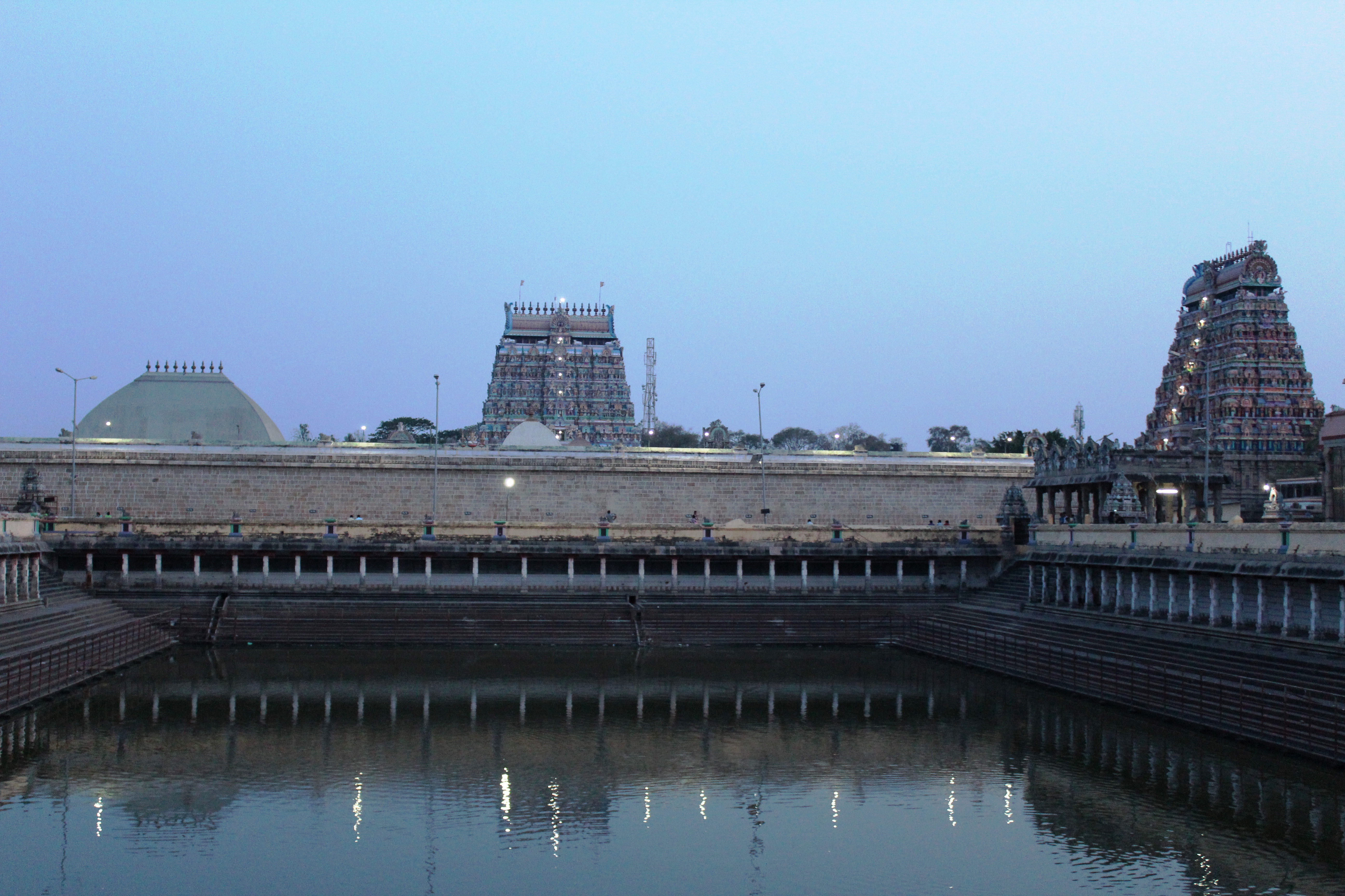 naaajaemple